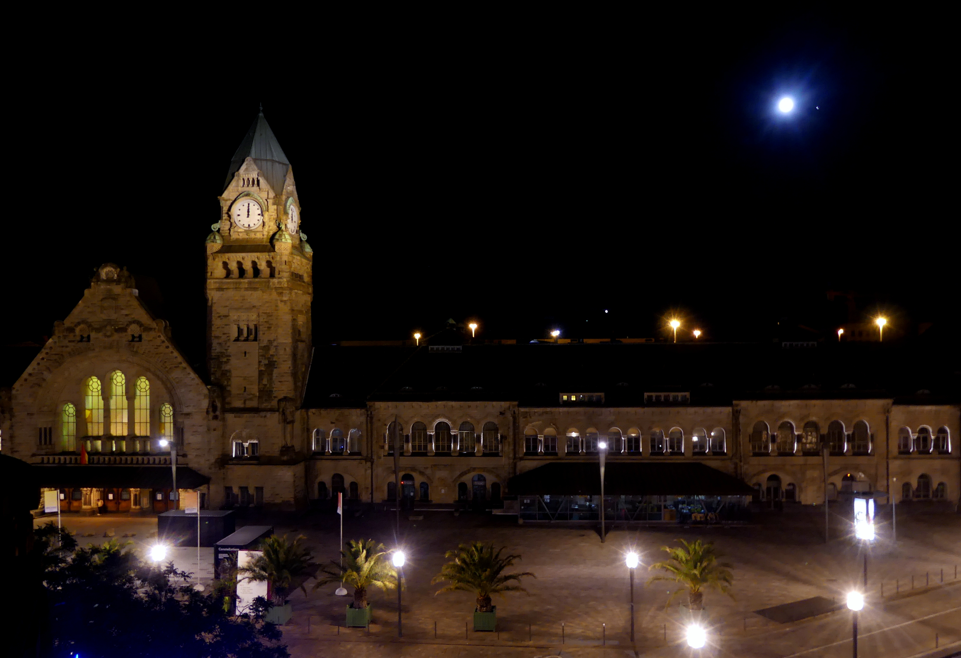 Sight, by night in the moonlight, of Metz railway station building, in Moselle, France.